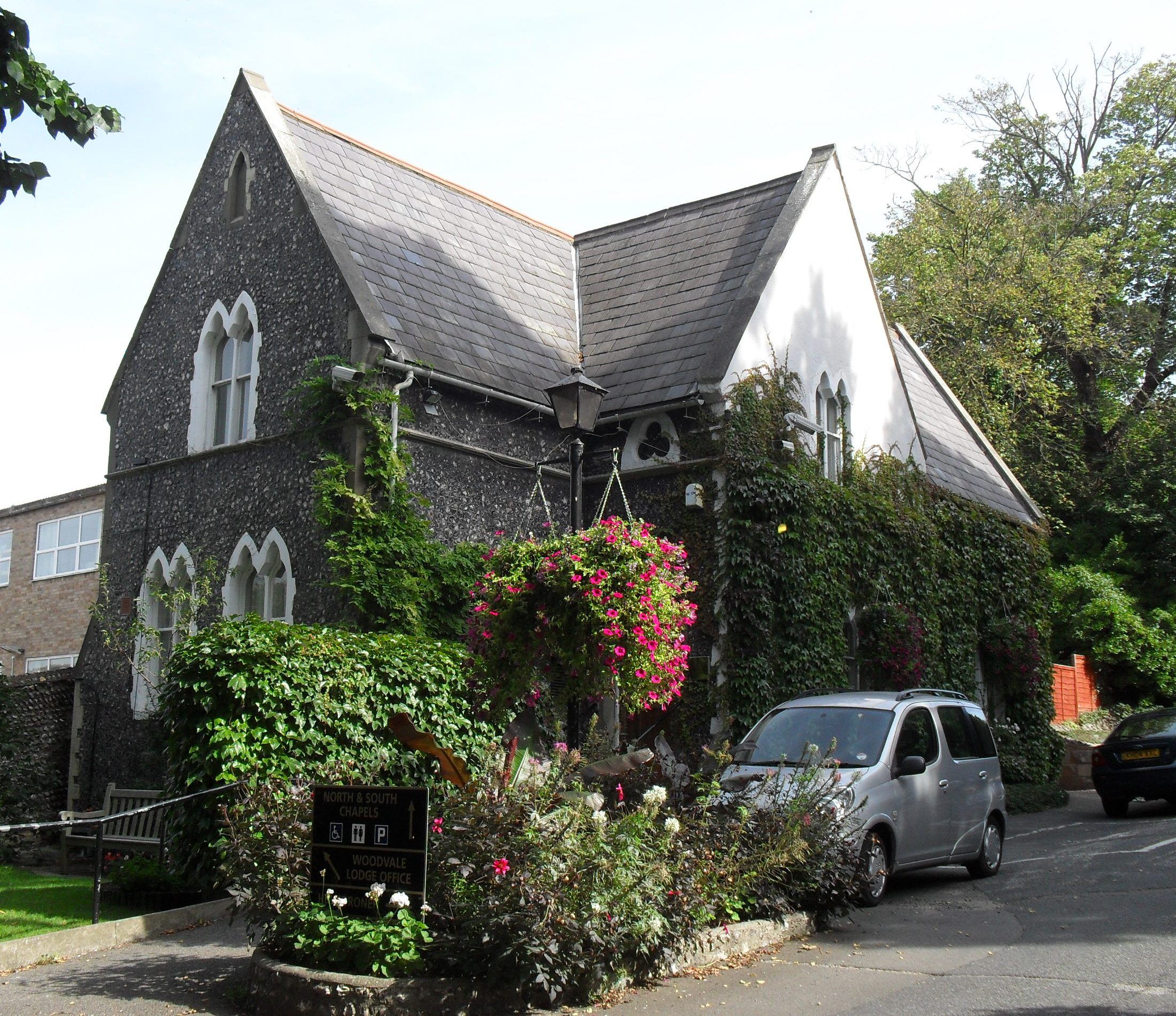 North Lodge at Woodvale Cemetery, Lewes Road, Brighton, City of Brighton and Hove, England. Listed at Grade II by English Heritage (IoE Code 482034)